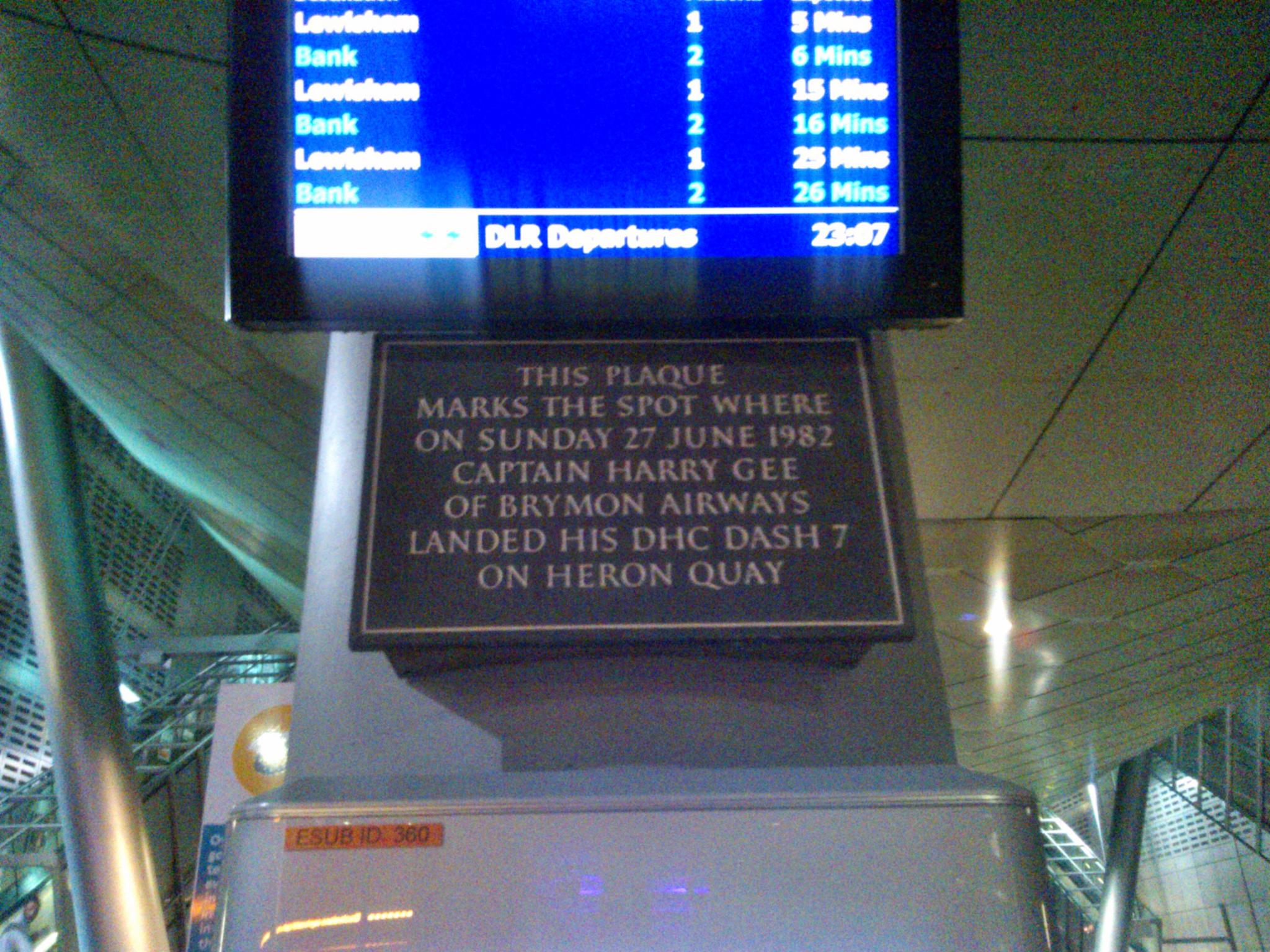 Plaque at Heron Quays DLR station commemorating the landing of an aeroplane at Heron Quays in 1982 to demonstrate the concept of a STOL airport in London Docklands